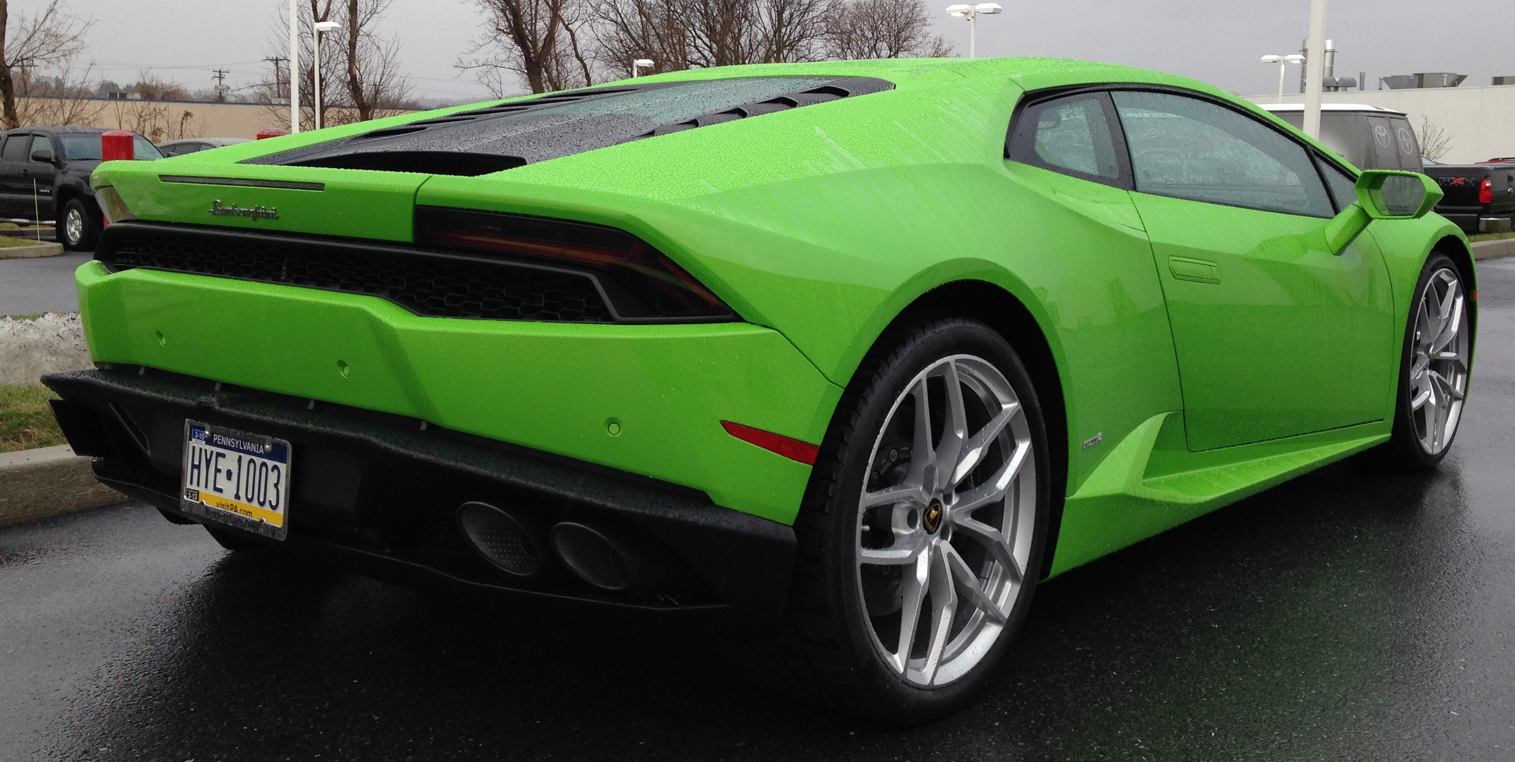 Lamborghini Huracan LP610-4